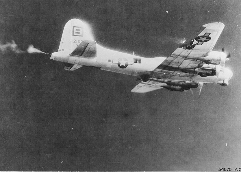 "The Thomper" (coded BG-X) B-17G-55-BO Flying Fortress s/n 42-102560 334th BS, 95th BG, 8th AF Lost on the November 30, 1944 mission to Merseburg, Germany. 5 KIA, 4 POW MACR 10840 In the photo the plane is under attack by German fighters and the tail gunner is returning fire. Note the damage in the right wing and wisps of fire starting to show.